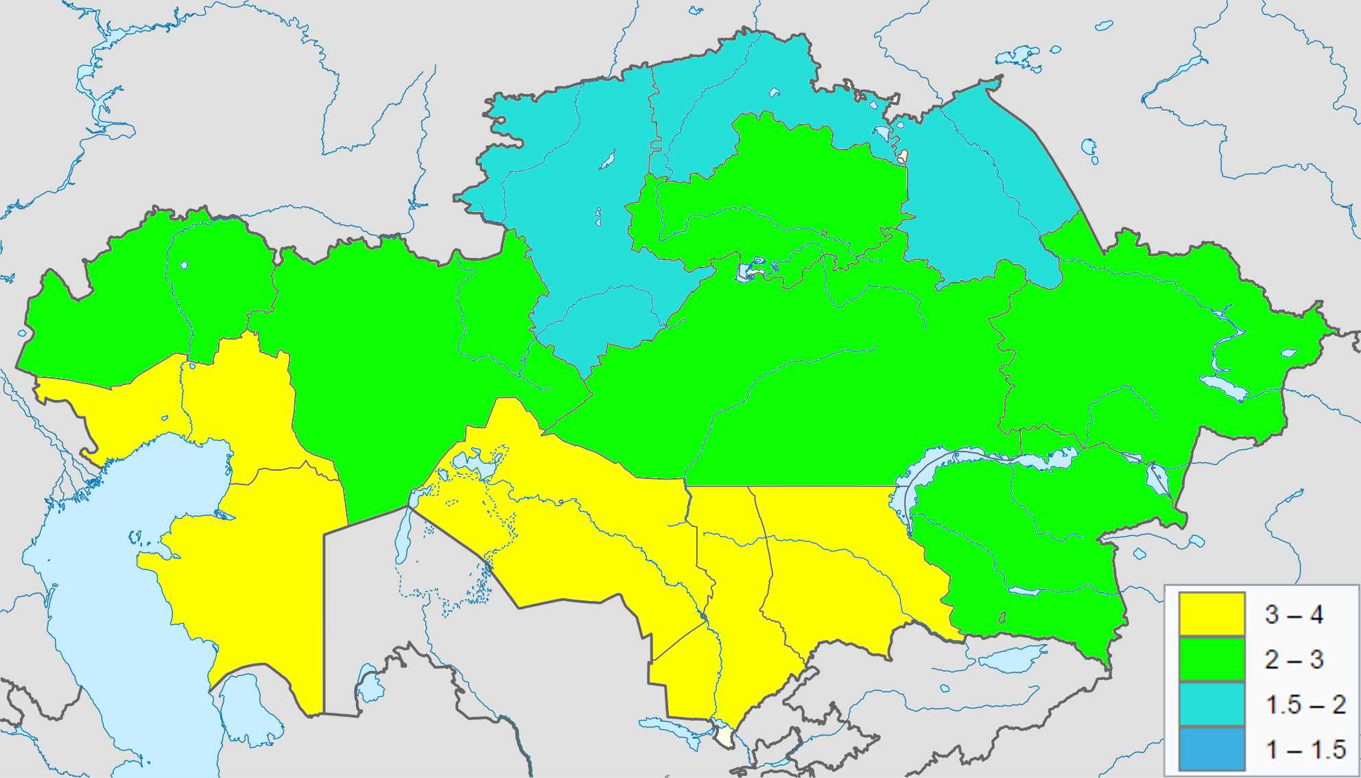 fertility rate by state in Kazakhstan